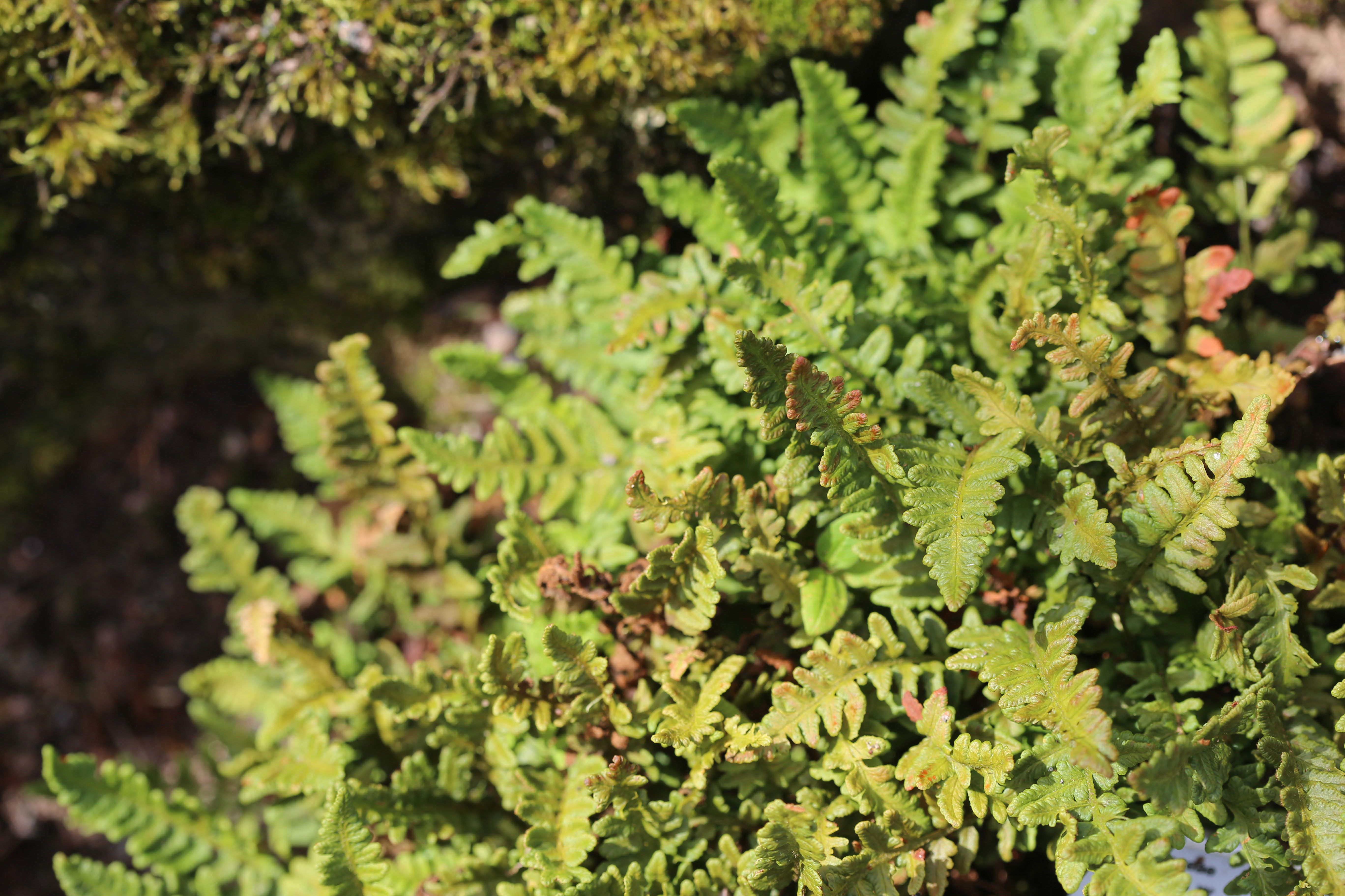 Woodsia kitadakensis in Gothenburg Botanical Garden. Plant id: 1996-1995 p W -- Meincke